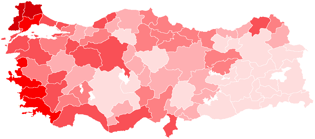 Republican People's Party performance in the Turkish general election, November 2015